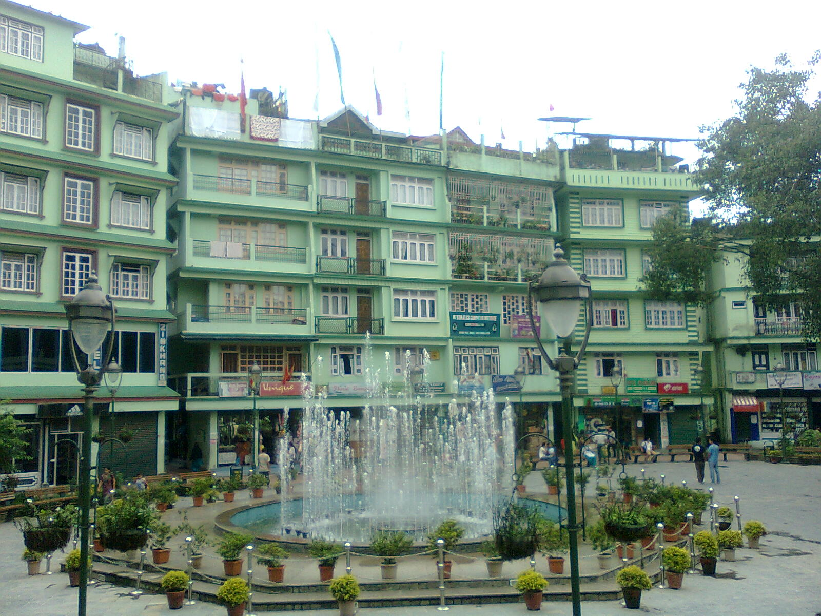 Central Park, Namchi